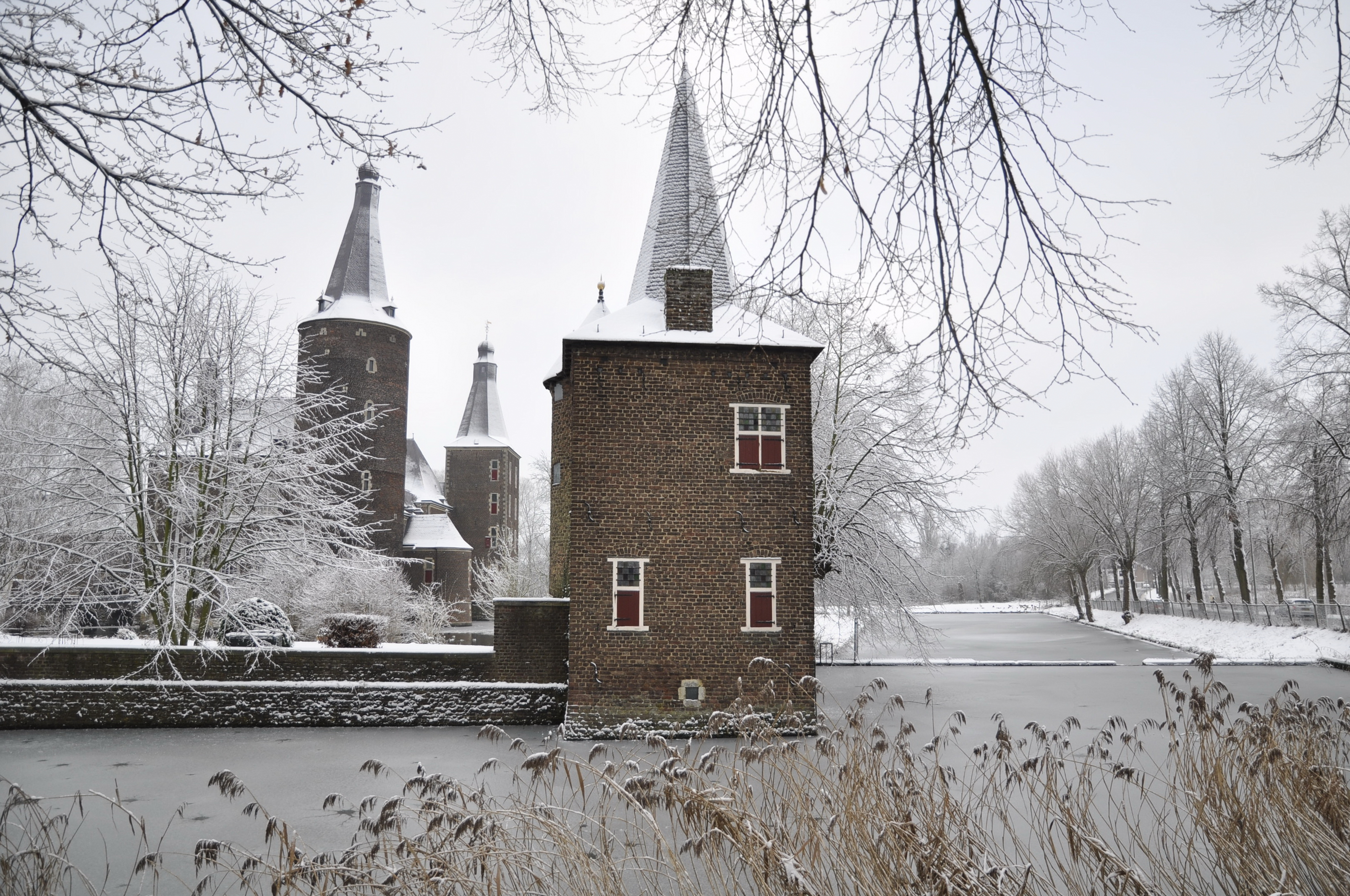 Castle Hoensbroek, Heerlen, the Netherlands